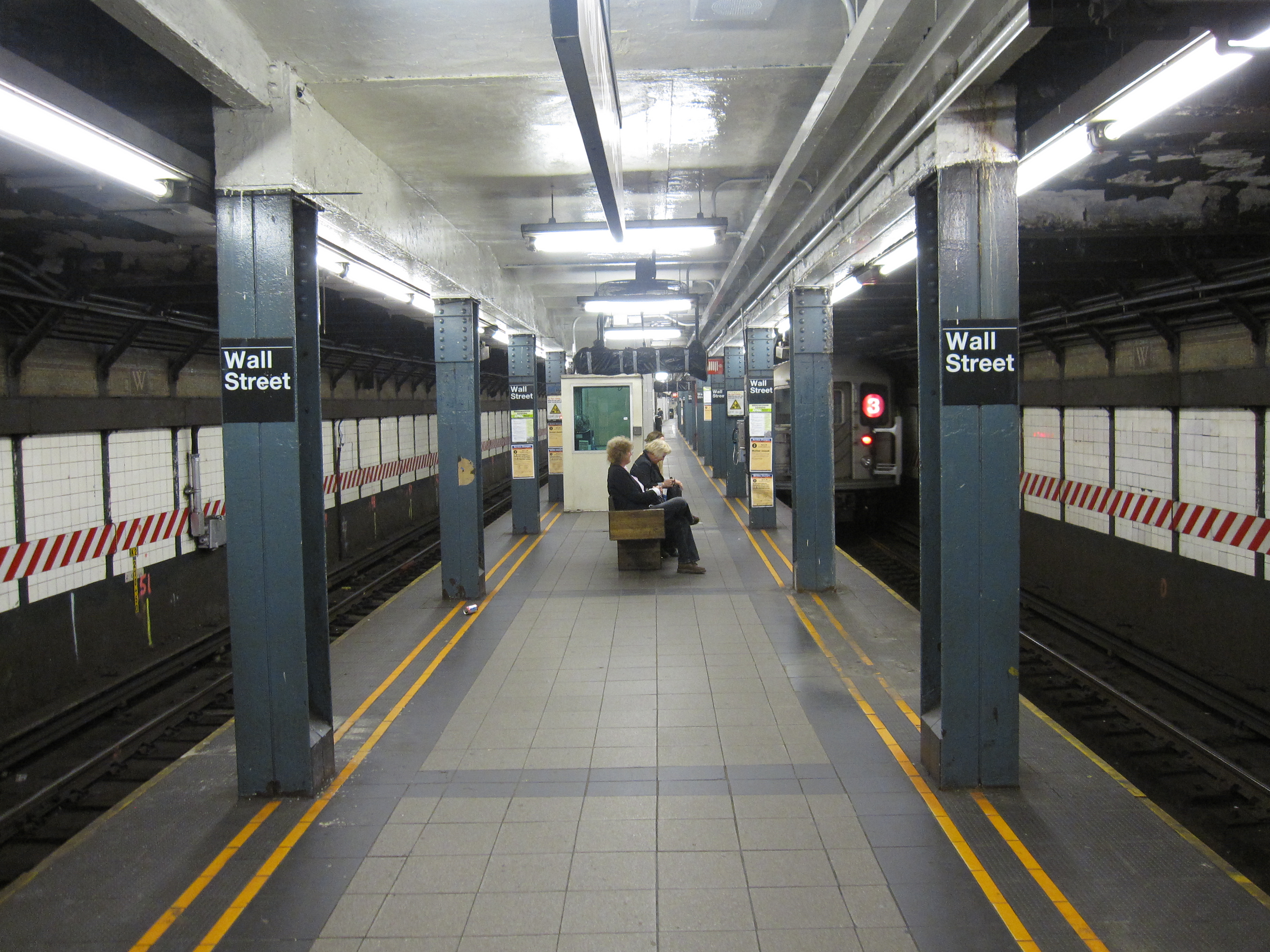 Wall Street (IRT Broadway – Seventh Avenue Line)